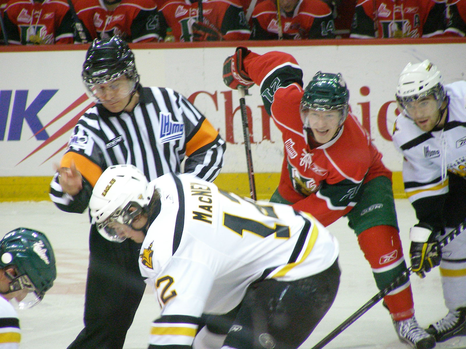 Cape Breton Screaming Eagles at Halifax Mooseheads (February 6 2010)